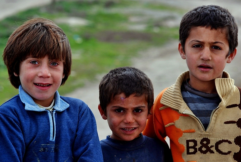 3 friend Kurdî: Sê heval ji Bismil3e